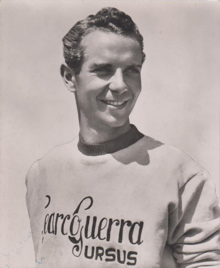 Hugo Koblet c1952-1954 postcard